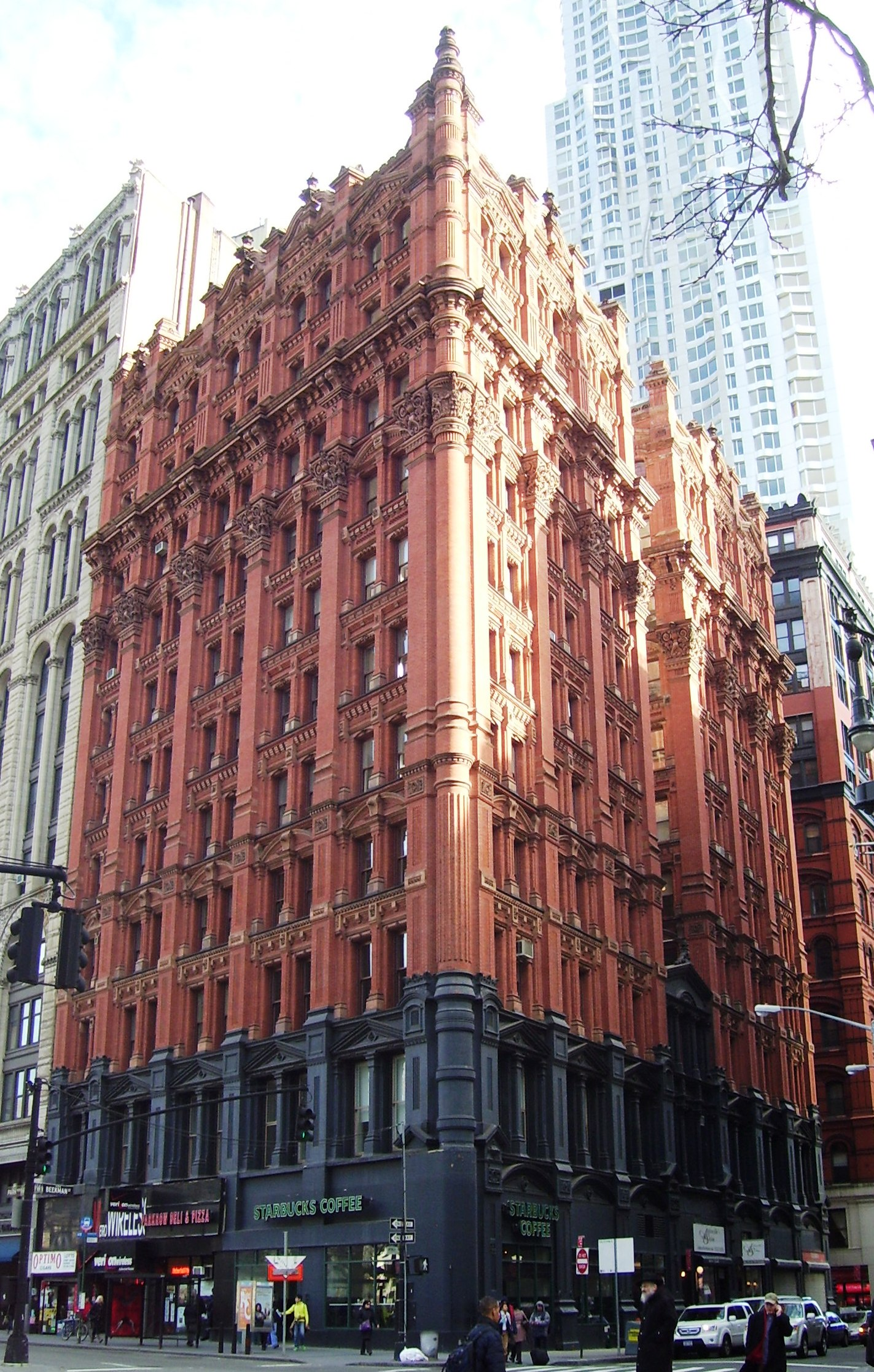 The Potter Building, at 38 Park Row on the corner of Beekman Street, a full-block building also known as 145 Nassau Street, in the Civic Center neighborhood of Manhattan, New York City, was built in 1882-86 and was designed by Norris G. Starkweather in a combination of the Queen Anne and neo-Grec styles, as an office building. It employed the most advanced fireproofing methods then available, and its terra-cotta detailing provoked the developer, Orlando B. Potter, to start his own terra cotta company. The building was converted into apartments in 1979-81, and was designated a NYC landmark in 1996. (Source: Guide to NYC Landmarks (4th ed.))